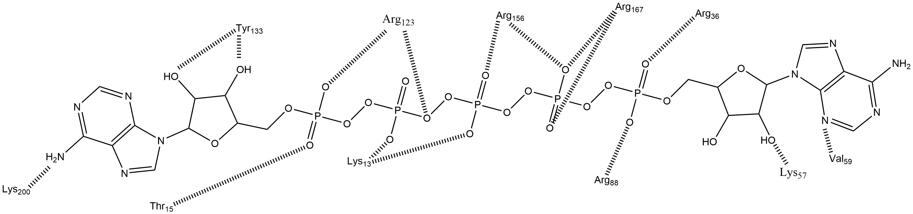 Binding of Ap5A in the active site of Adenylate Kinase with the Arginine network labeled